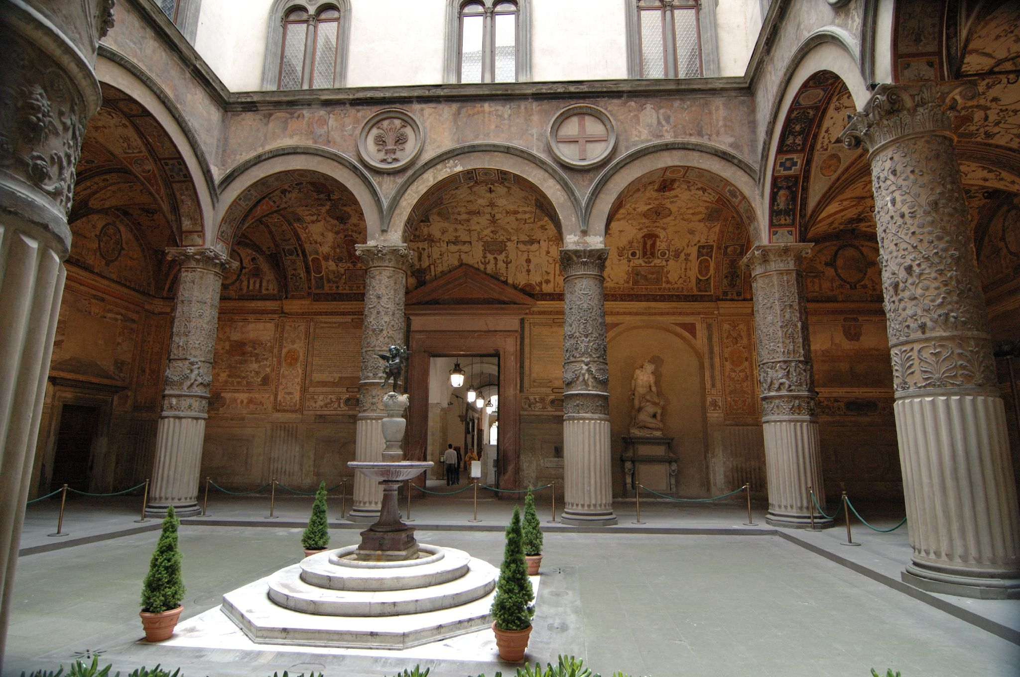 see above